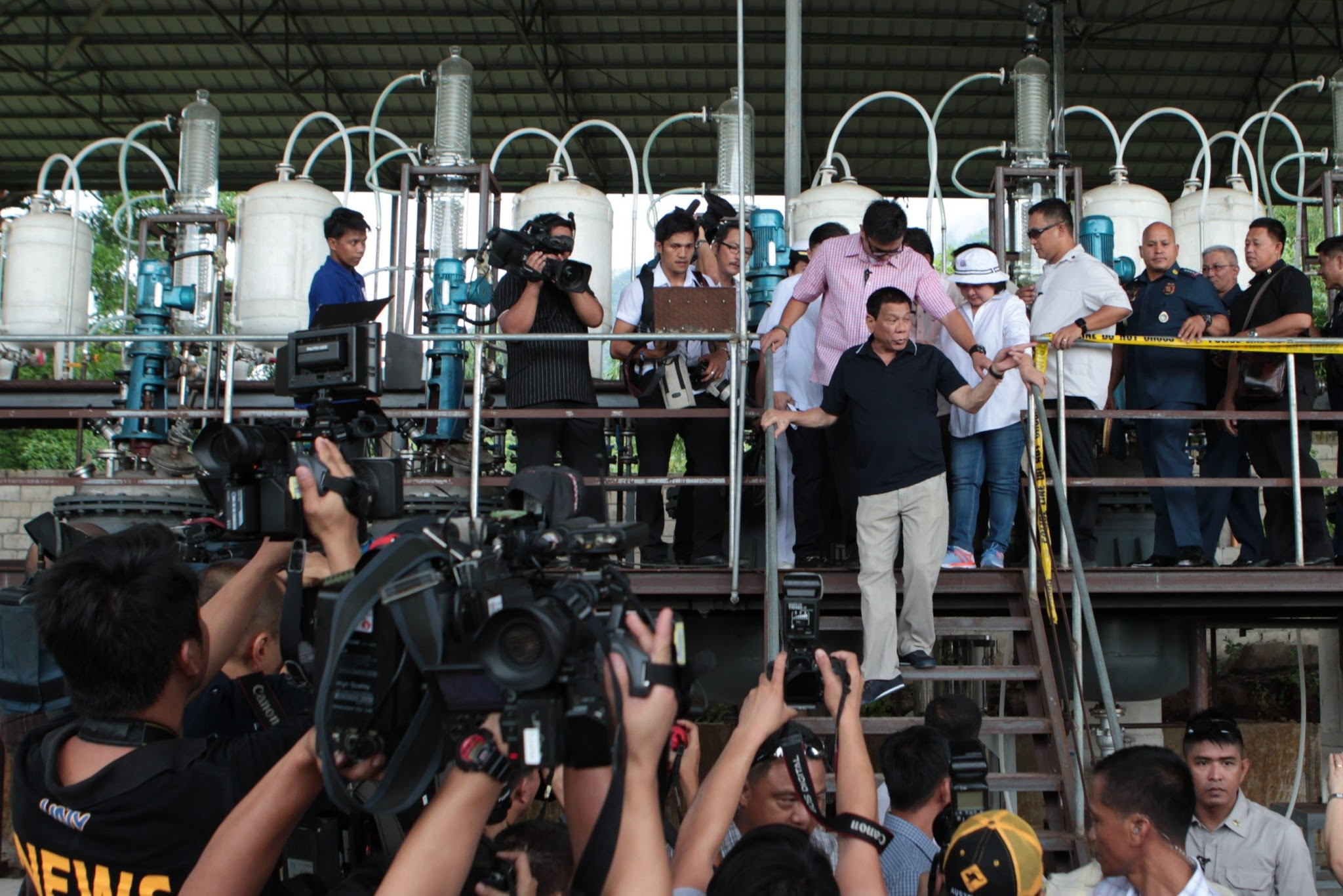 President Rodrigo Duterte leads the inspection of the seized shabu laboratory in Arayat, Pampanga on September 27.